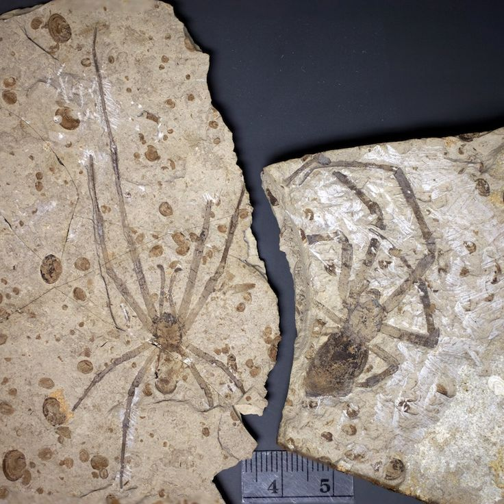 Pair of male (left) and female (right) fossil Mongolarachne jurassica, an extinct spider known from the Daohugou Beds, in Ningcheng County, northeastern China.